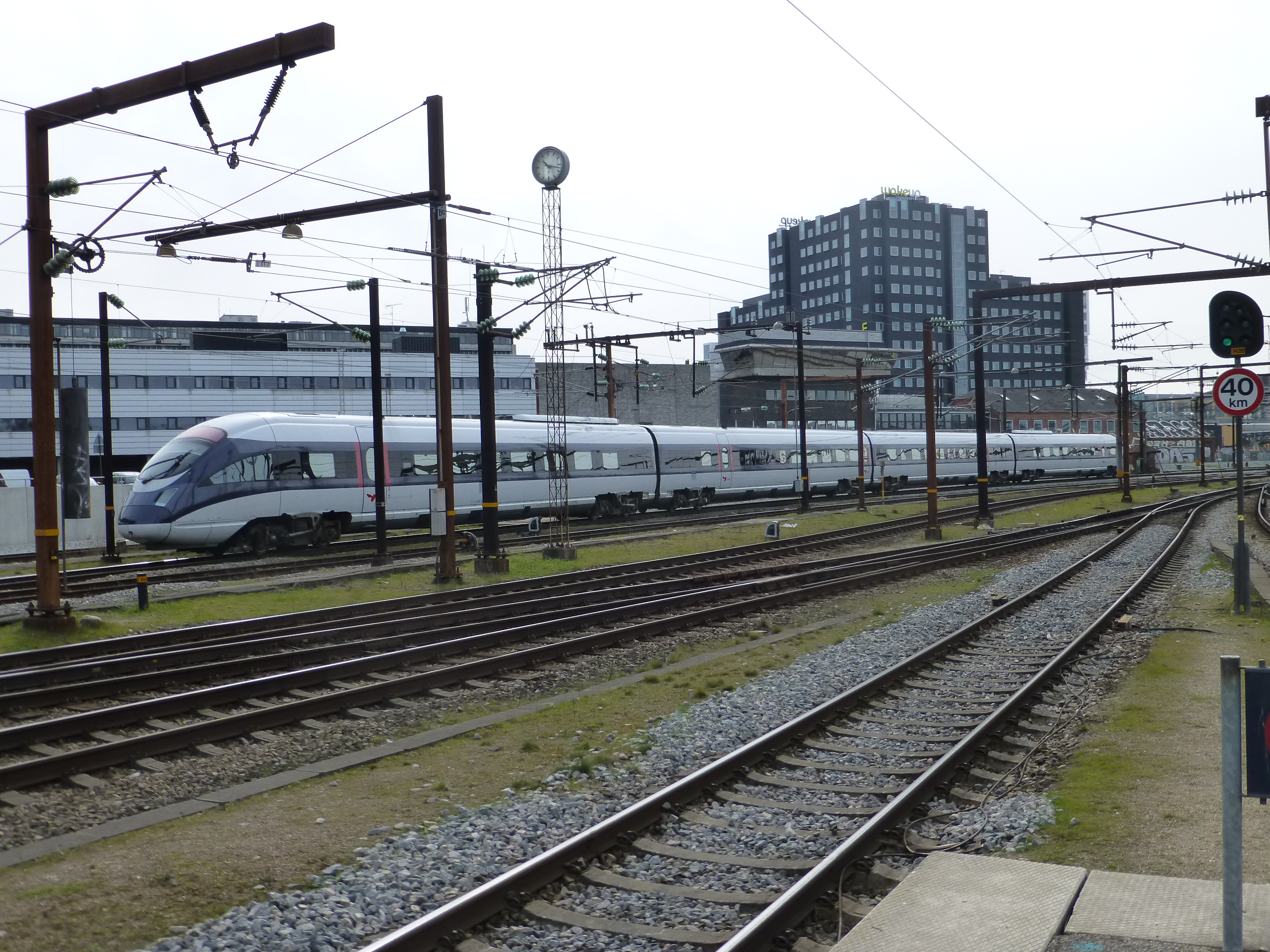 German/Danish diesel multiple unit ICE-TD 06 at Copenhagen Central Station. The unit was painted in the DSB design as the first such unit a week before.